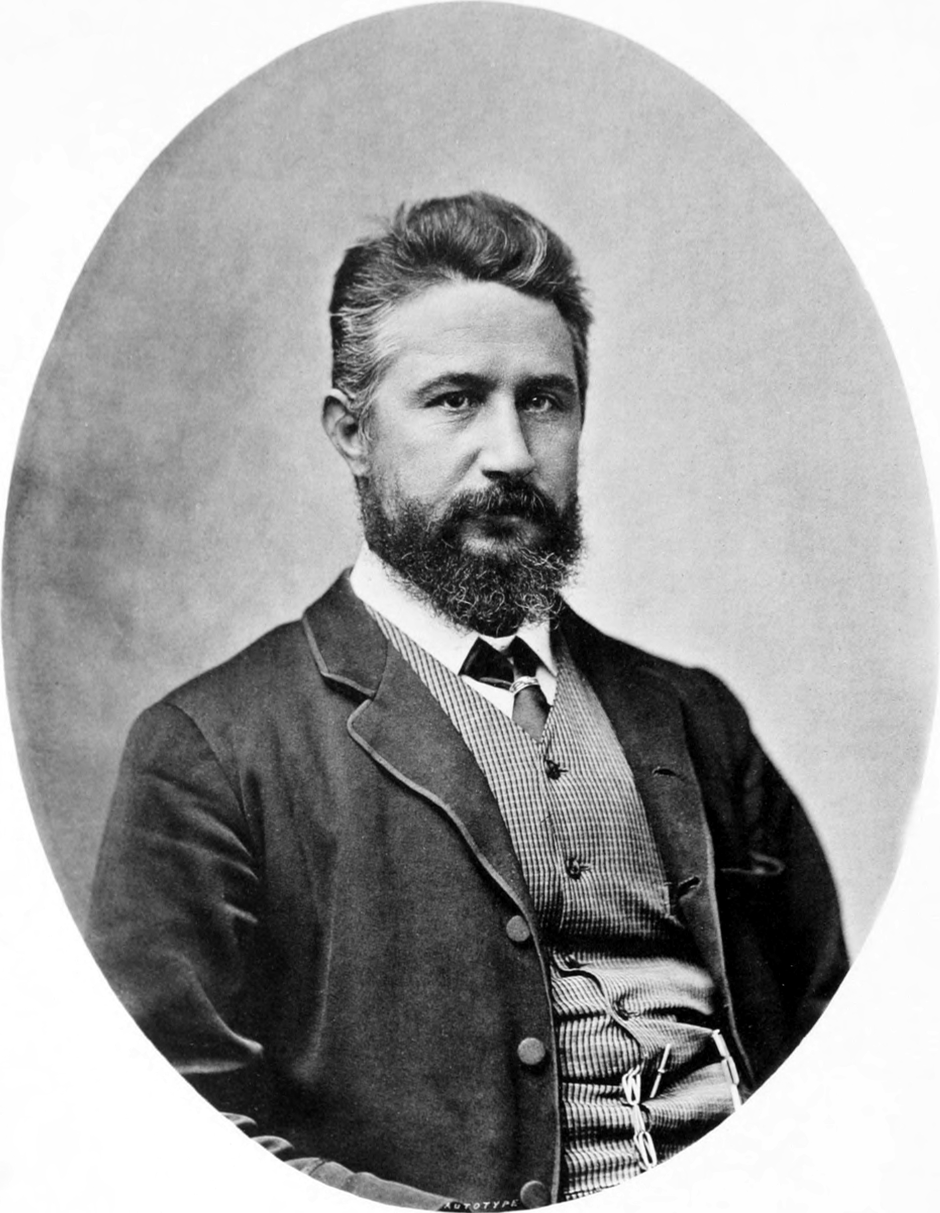 John William Lindt, German Photographer, Australian resident, Fellow of the Royal Geographical Society.